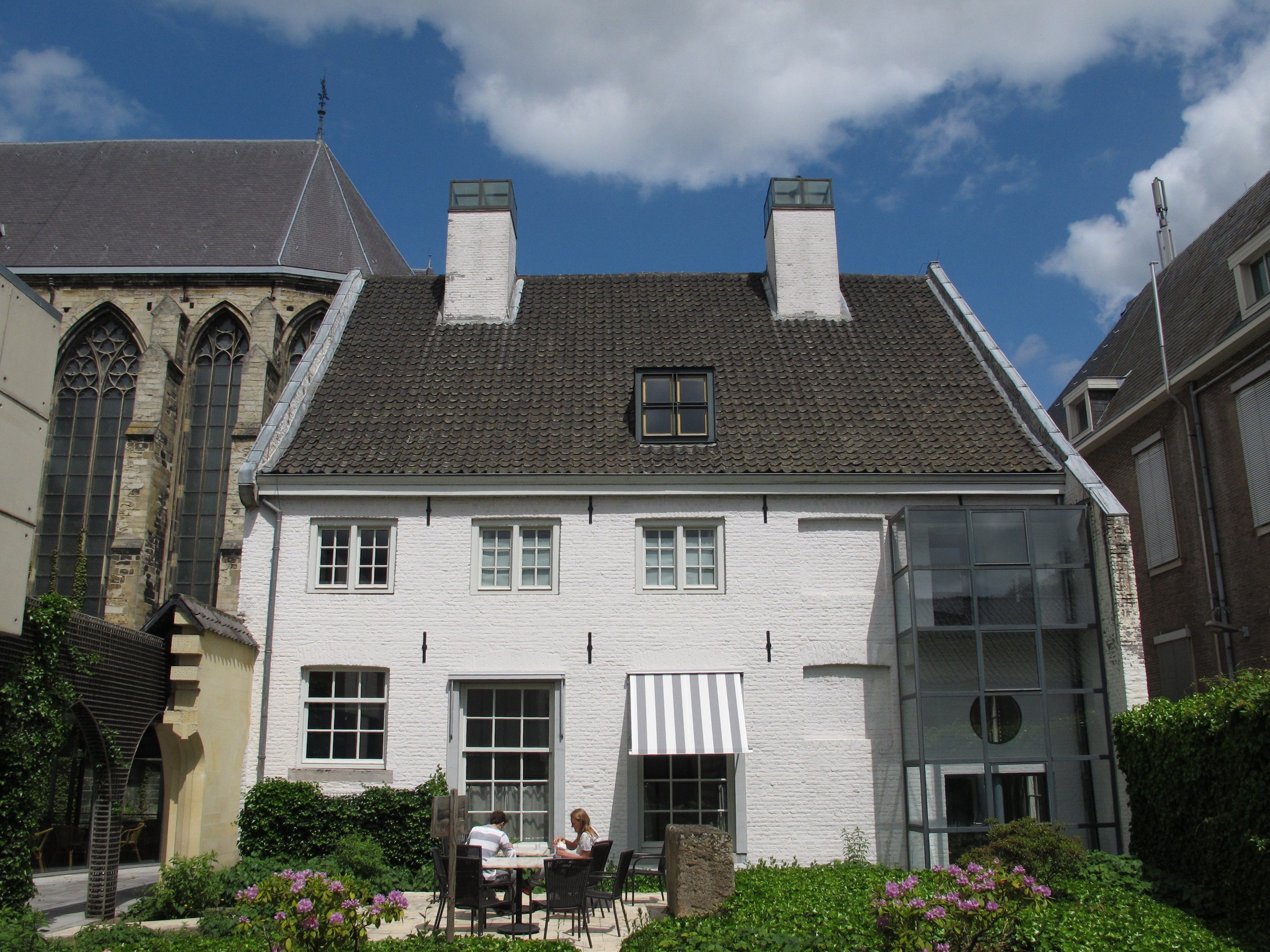 Commandantswoning van de Sint-Pieterskazerne, also known as the birthhouse of Jac.P.Thijsse